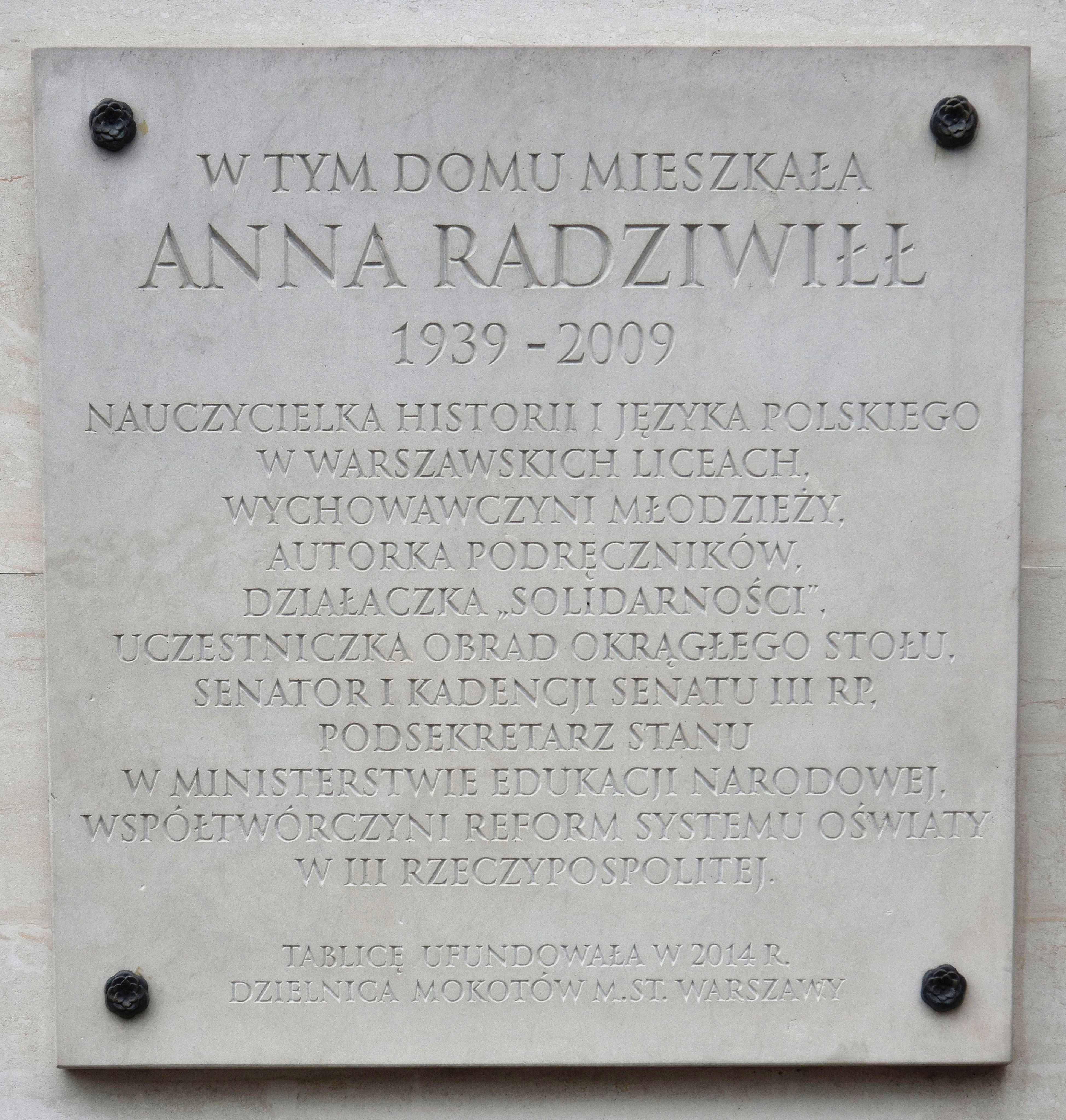 Plaque in memory of Anna Radziwiłł at 3 Odyńca Street in Warsaw